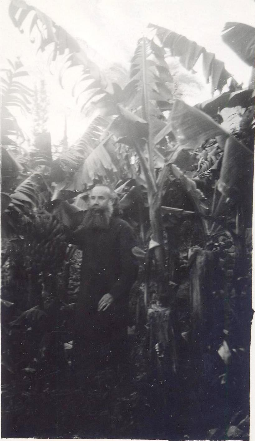 Metropolitan Bishop Boris of Nevrokop Eparchy. Blagoevgrad